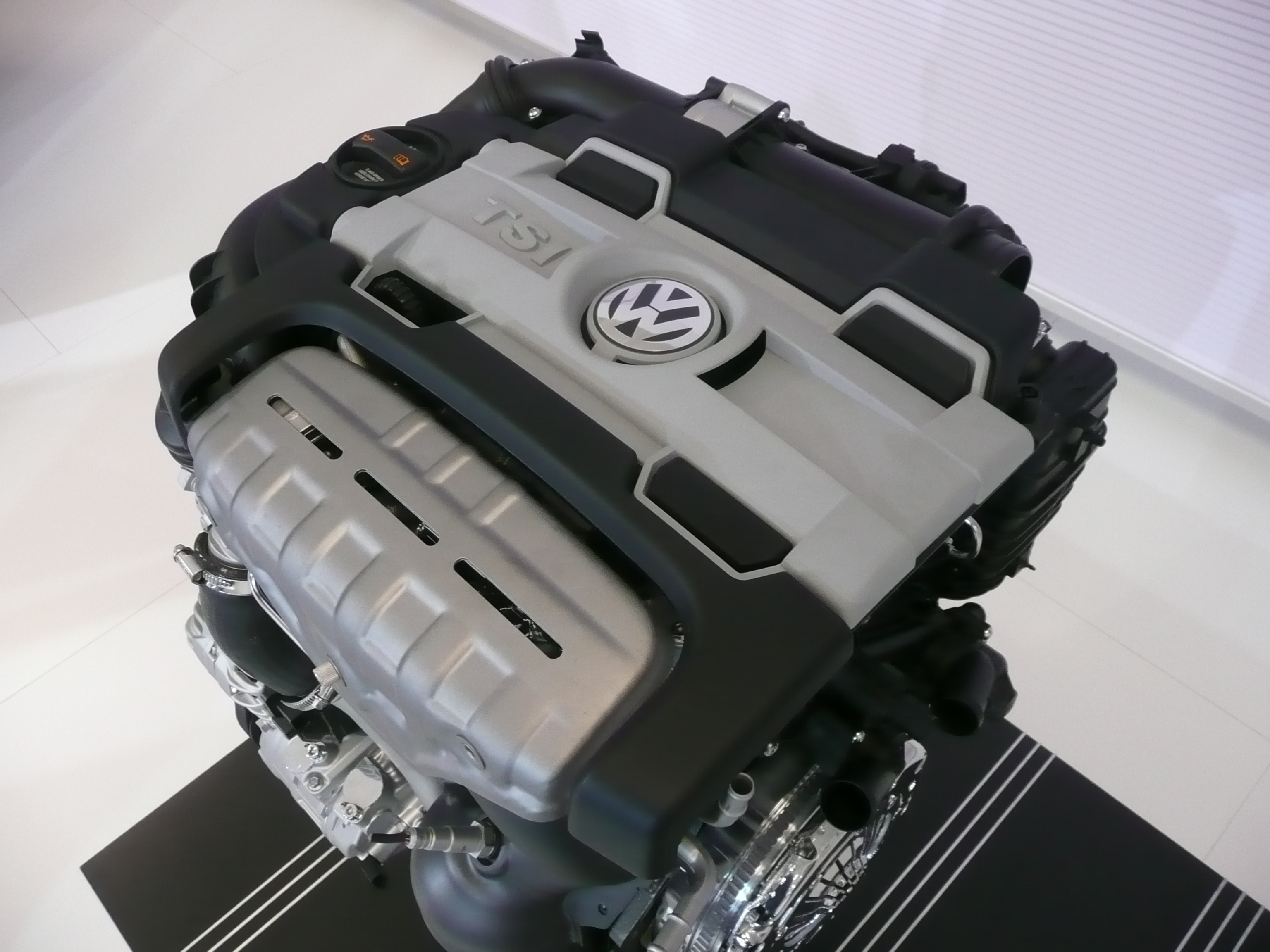 Volkswagen TSI engine. Photographed at the 2008 Australian International Motor Show, Sydney, New South Wales, Australia.